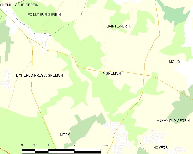 Map of French municipality Aigremont